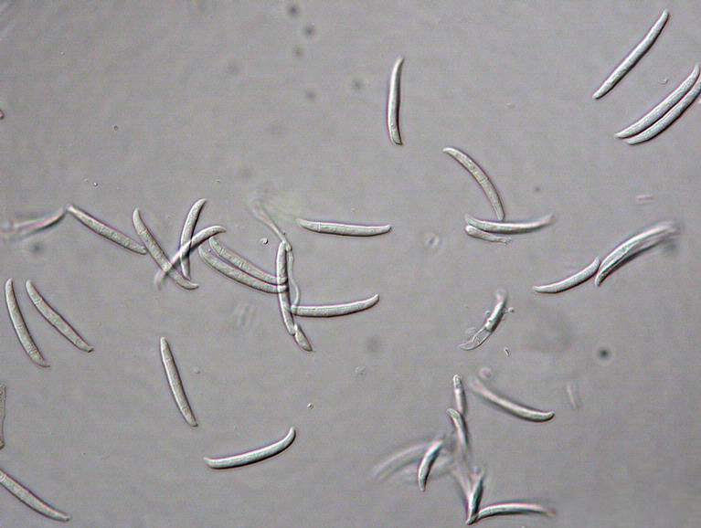 Fusarium damping-off (Asexual Spore) Fusarium solani (Mart.) Sacc. Image location: United States